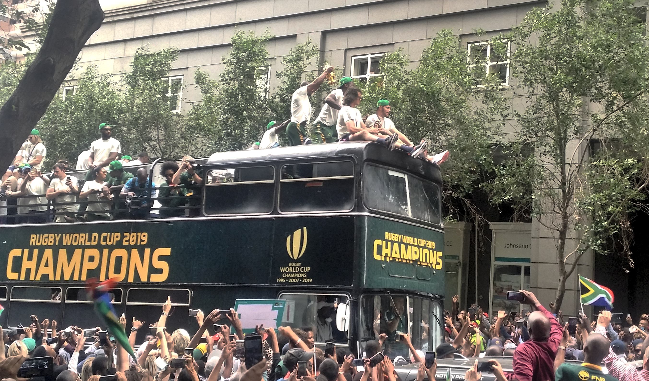 Springboks on their tour of South Africa after winning the 2019 Rugby World Cup.